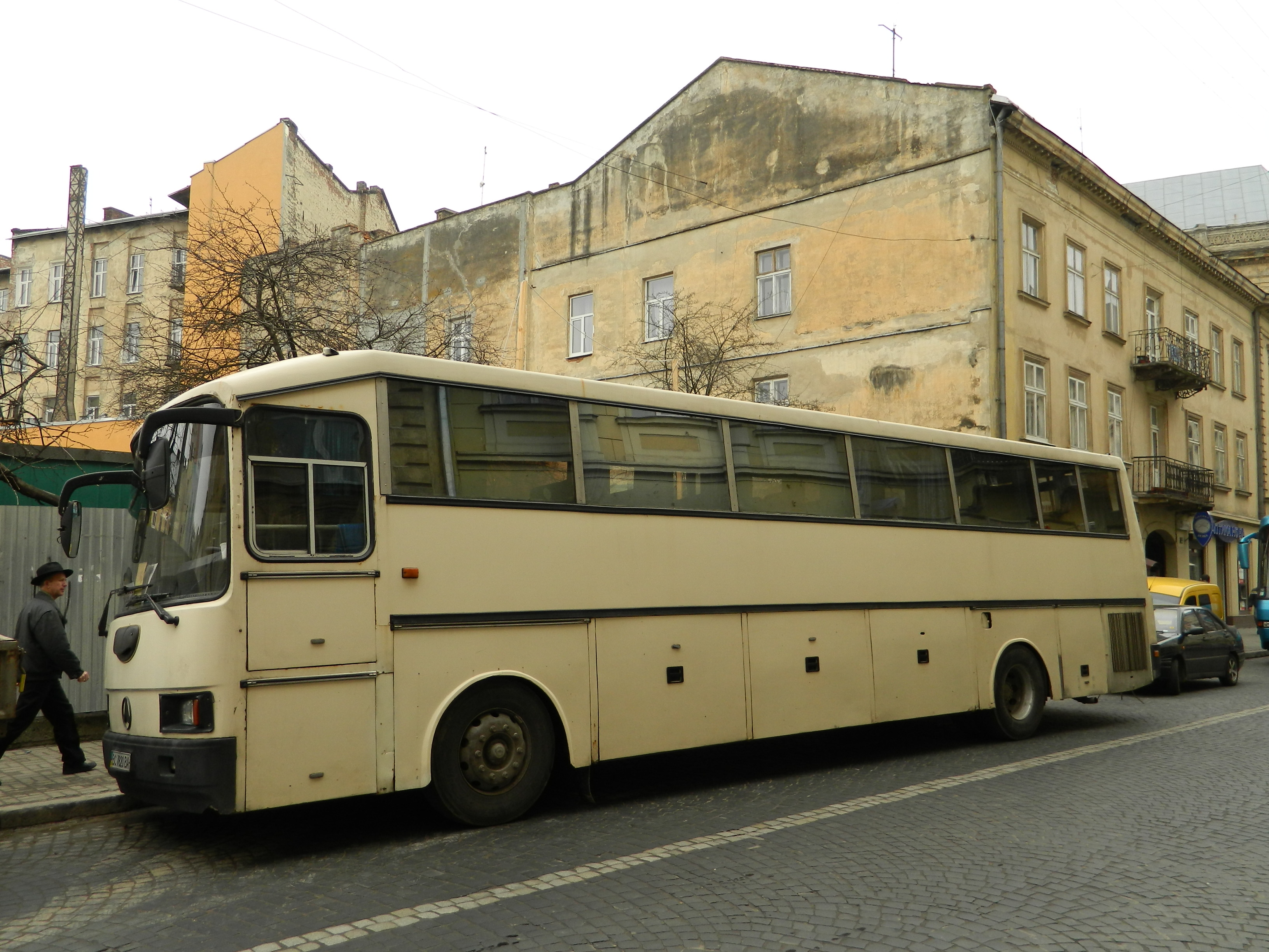 LAZ-5208 prototype, bus built 1995-1996.